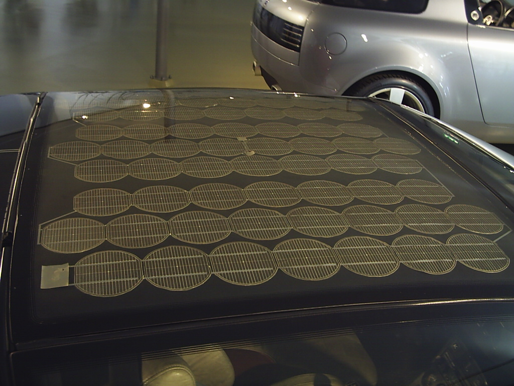 Solar panel on the concept car Saab EV-1 from 1985.